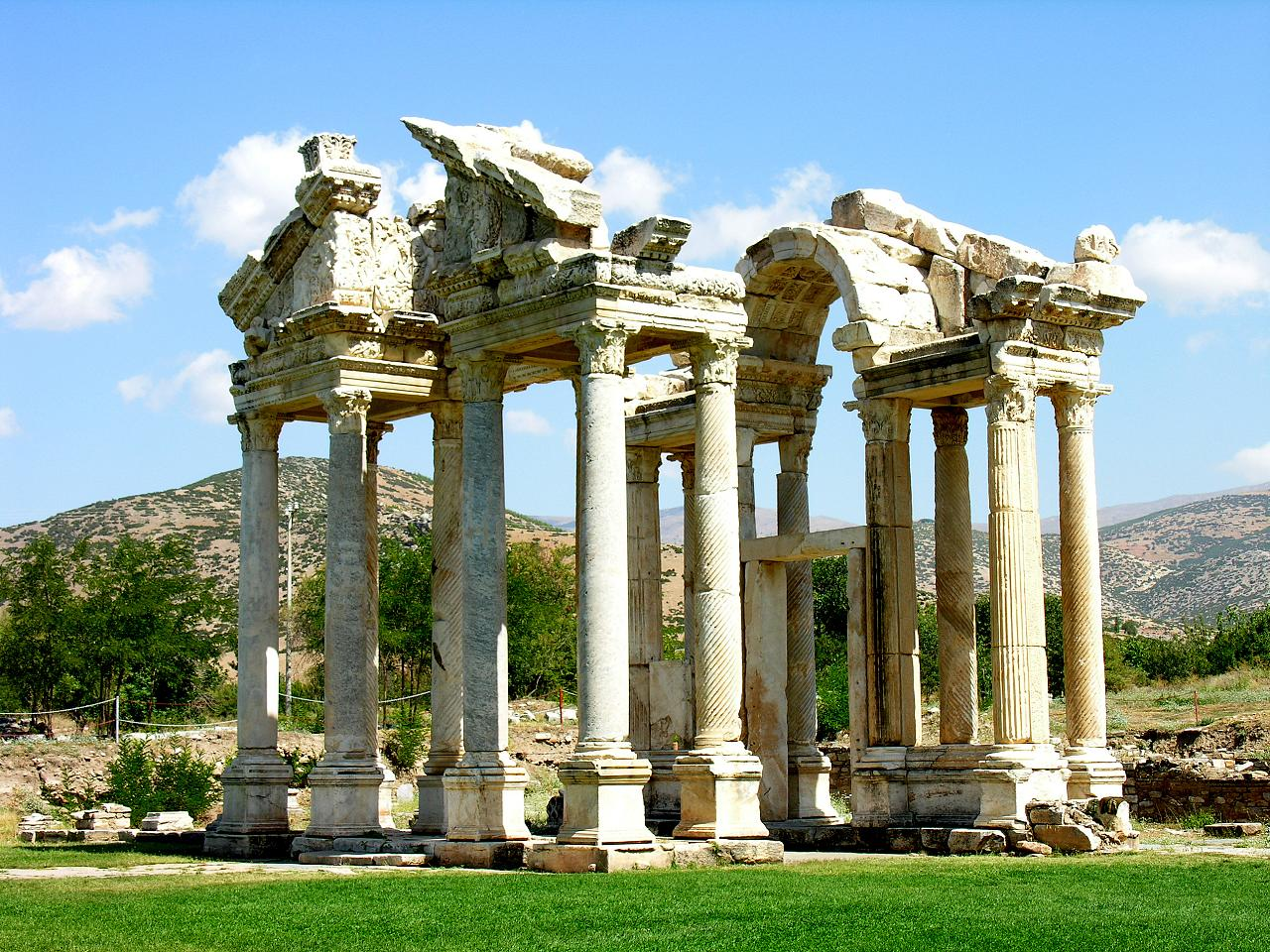 The ornamental Tetrapylon gate constructed in the middle of the 2nd century. The name Tetrapylon refers to its being composed of four groups of four columns. Aphirodisias, Turkey